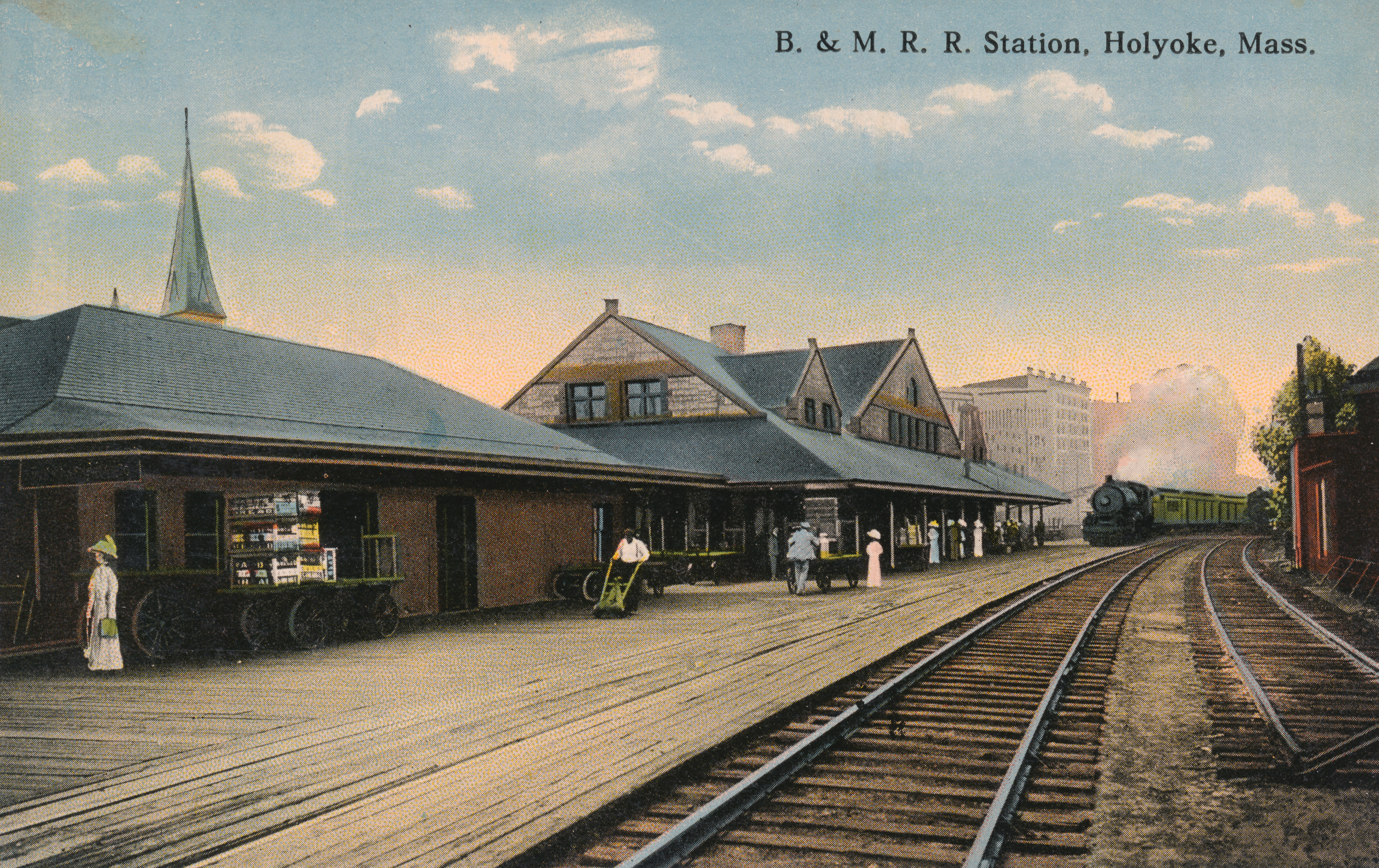 An early postcard showing the former Boston and Maine Railroad station in Holyoke, Massachusetts.